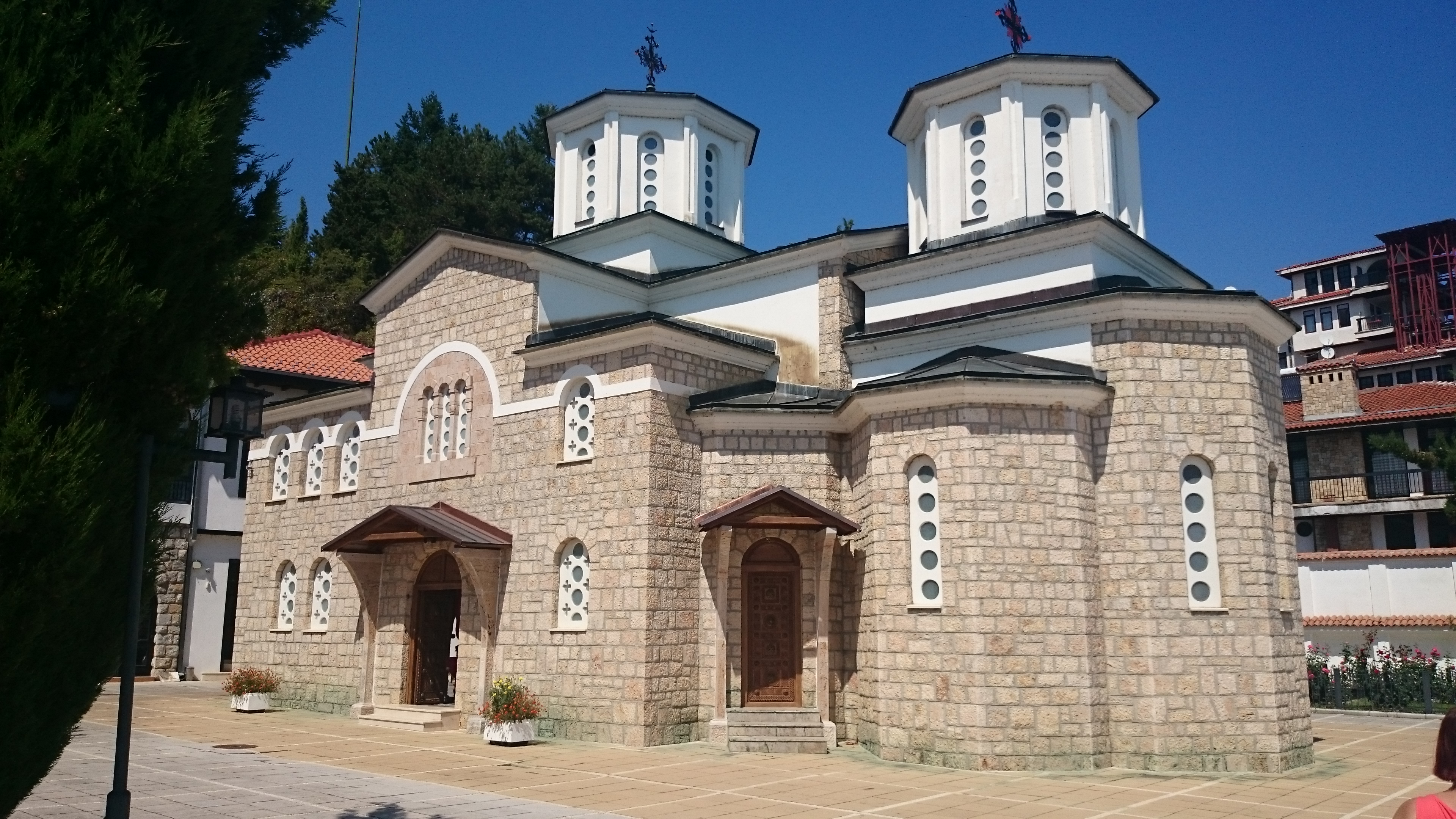 Nativity of the Theotokos Church in Kališta, Macedonia Оваа фотографија е на објект прогласен за културно наследство на Македонија според евиденцијата во Регистарот на културно наследство на Управата за заштита на културното наследство на Македонија Ова е фотографија на споменик на културата во Македонија со типски код: A01This is a a photo of a cultural monument in North Macedonia with type id: A01